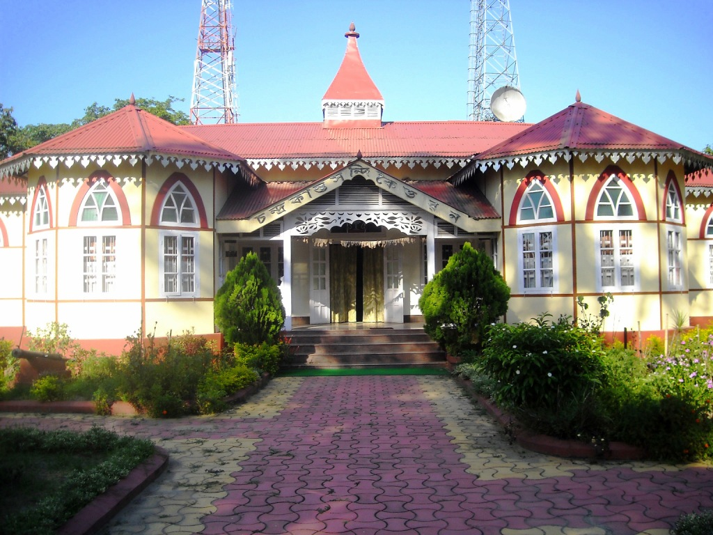 Chandrakanta Handique Bhawan is the head office of Asom Sahitya Sabha situated in Jorhat. It was donated by radhakanta Handique in memory of his youngest son Chandrakanta in 1926.